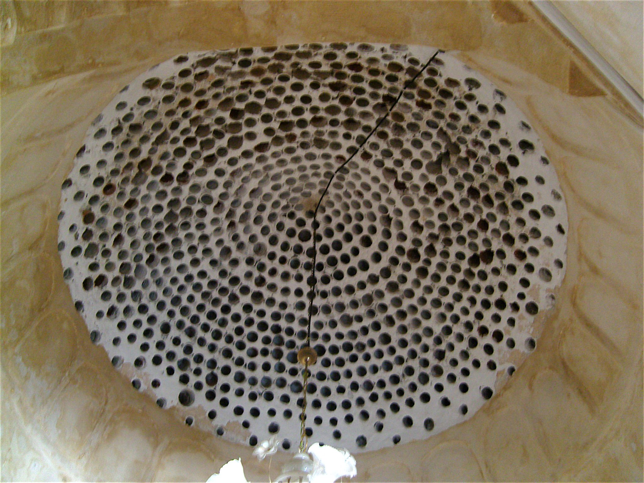 Interior view of Sidi Ammar's dome in Sayada - Tunisia